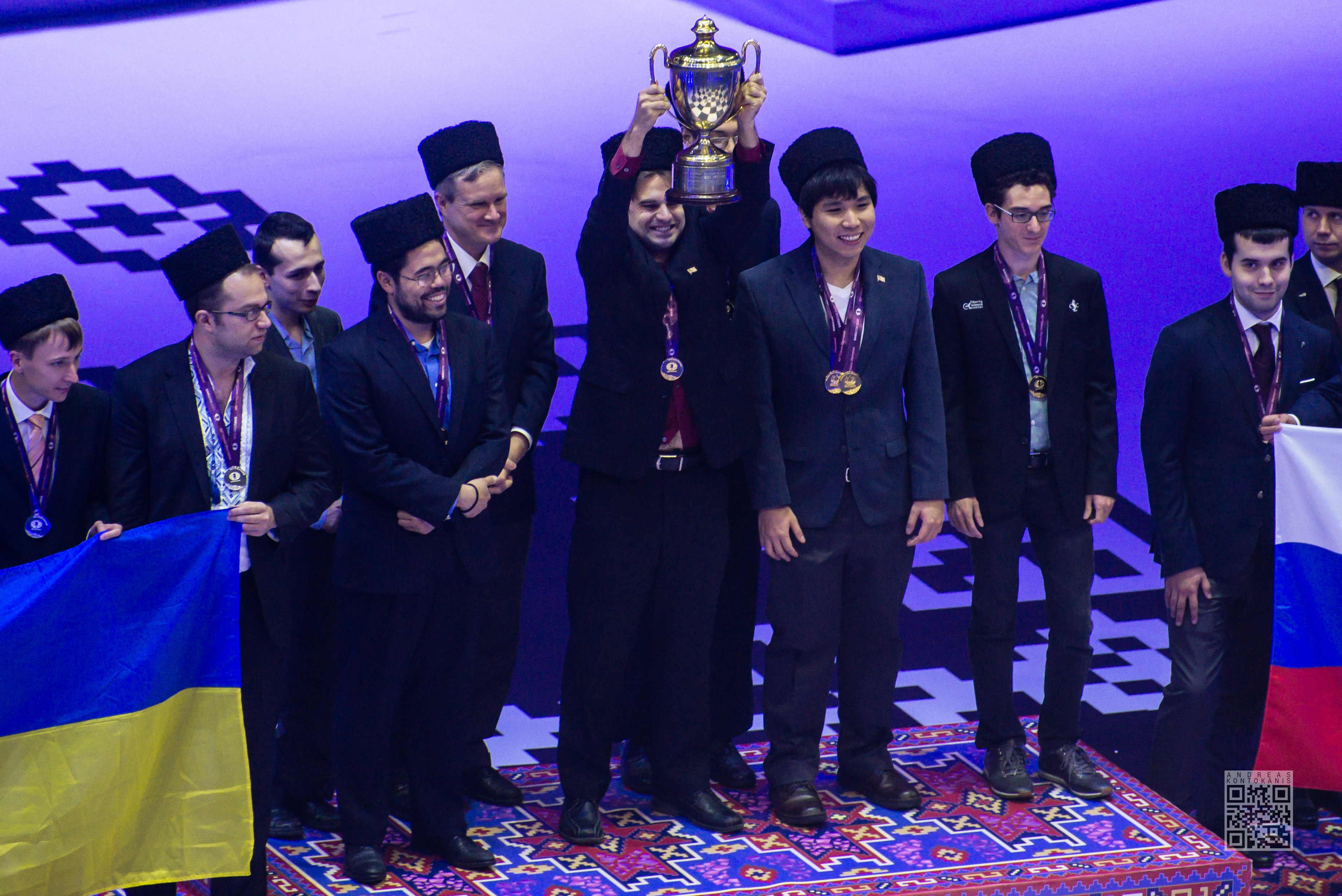 GM Sam Shankland raises the Golden cup for the US team